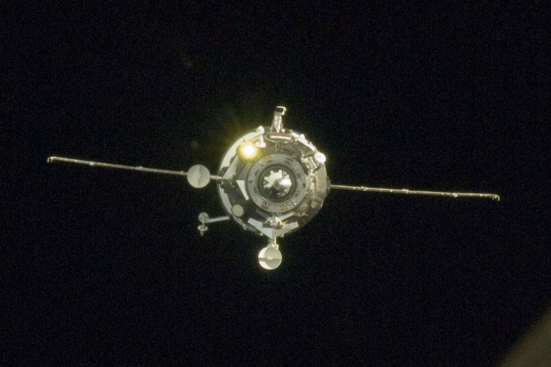 An unpiloted ISS Progress resupply vehicle approaches the International Space Station, carrying 2,050 pounds of space station propellant, 62 pounds of oxygen, 42 pounds of air, 926 pounds of water and 2,738 pounds of spare parts, crew supplies and equipment for the Expedition 33 crew members. Progress 49 docked to the station's Zvezda Service Module aft port at 9:33 a.m. (EDT) on Oct. 31, 2012.